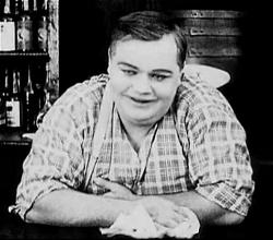 Roscoe Arbuckle in comedy Out-West (1918).